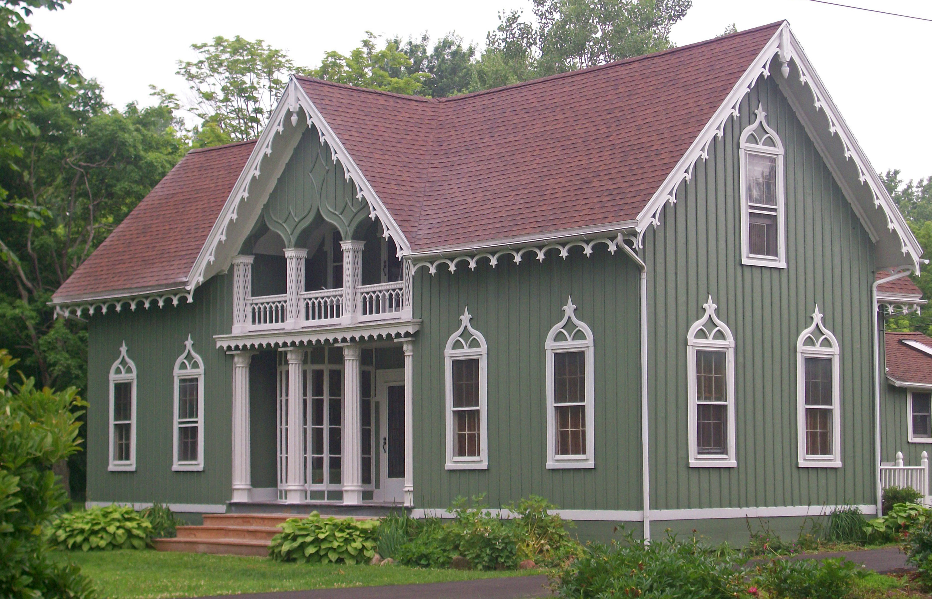 Gifford-Walker Home, North Bergen, NY, USA